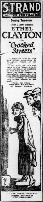 Newspaper advertisement for the American spy drama film Crooked Streets (1920) with Ethel Clayton, on page 13 of the October 6, 1920 The Duluth Herald.